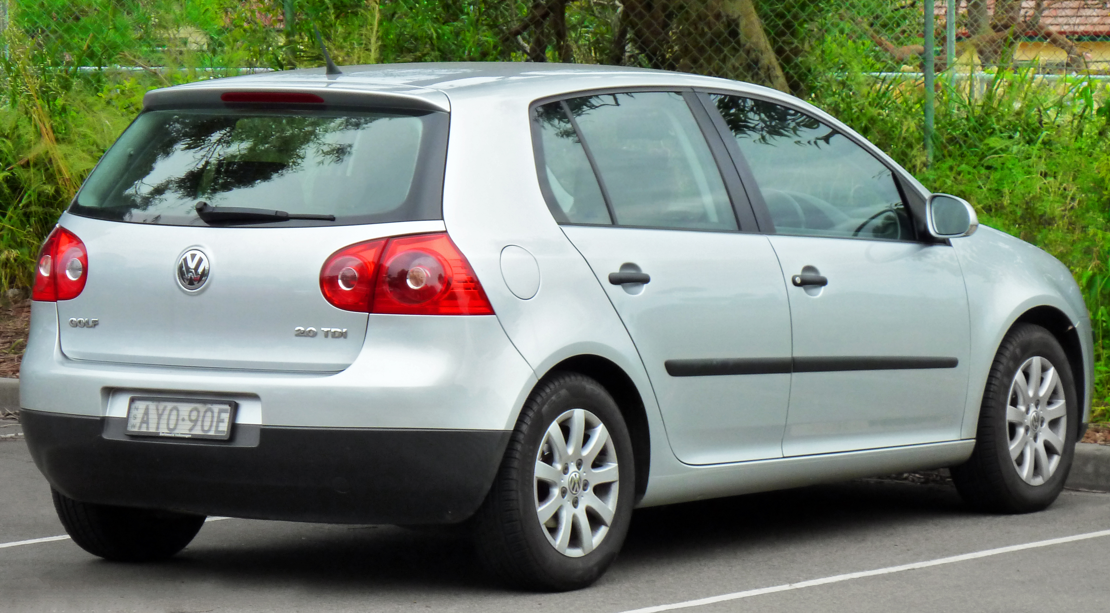 2006 Volkswagen Golf (1K) Comfortline 2.0 TDI 5-door hatchback. Photographed in Kirrawee, New South Wales, Australia.